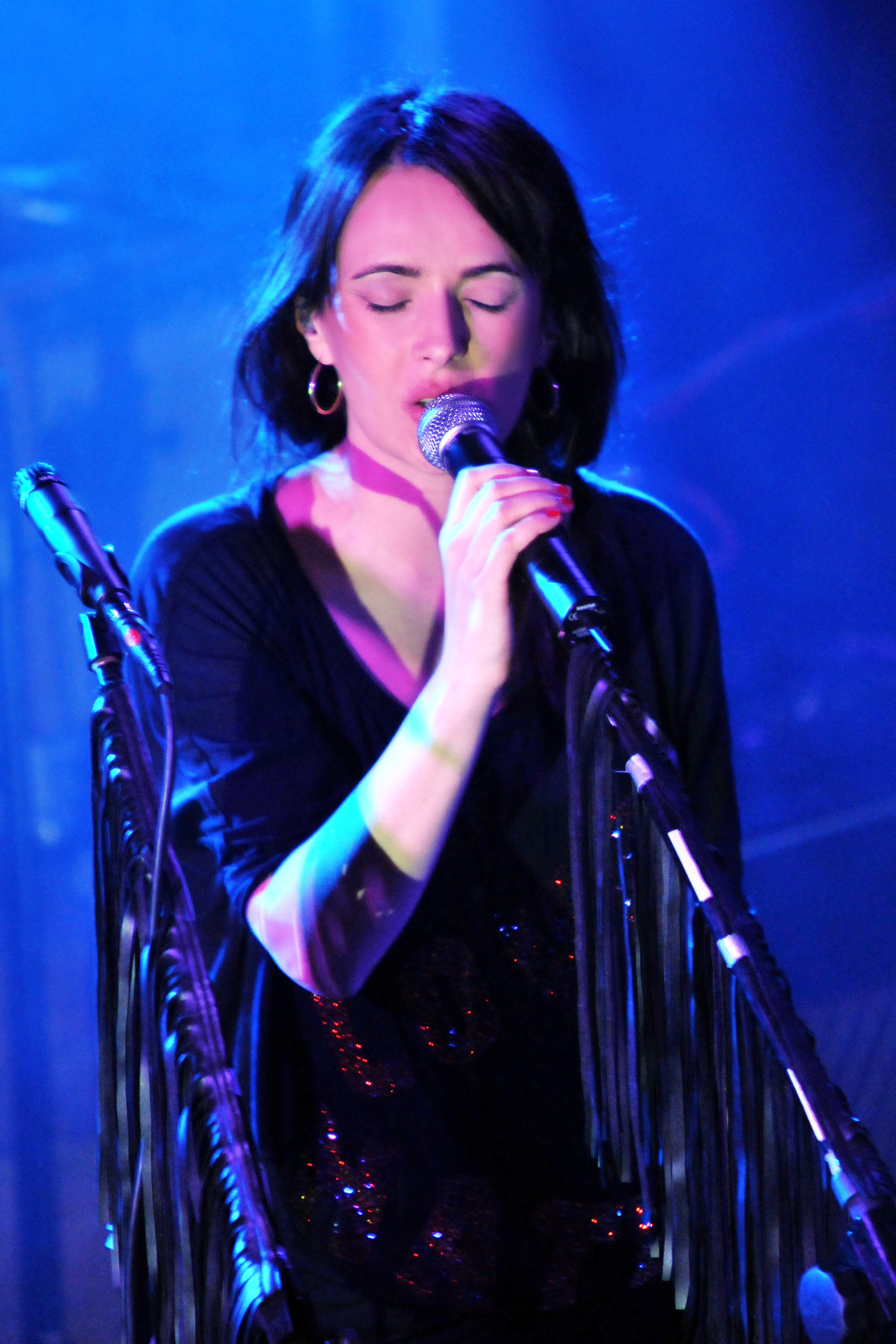 Kasia Kowalska in concert in Gdynia, 8 Feb 2009.